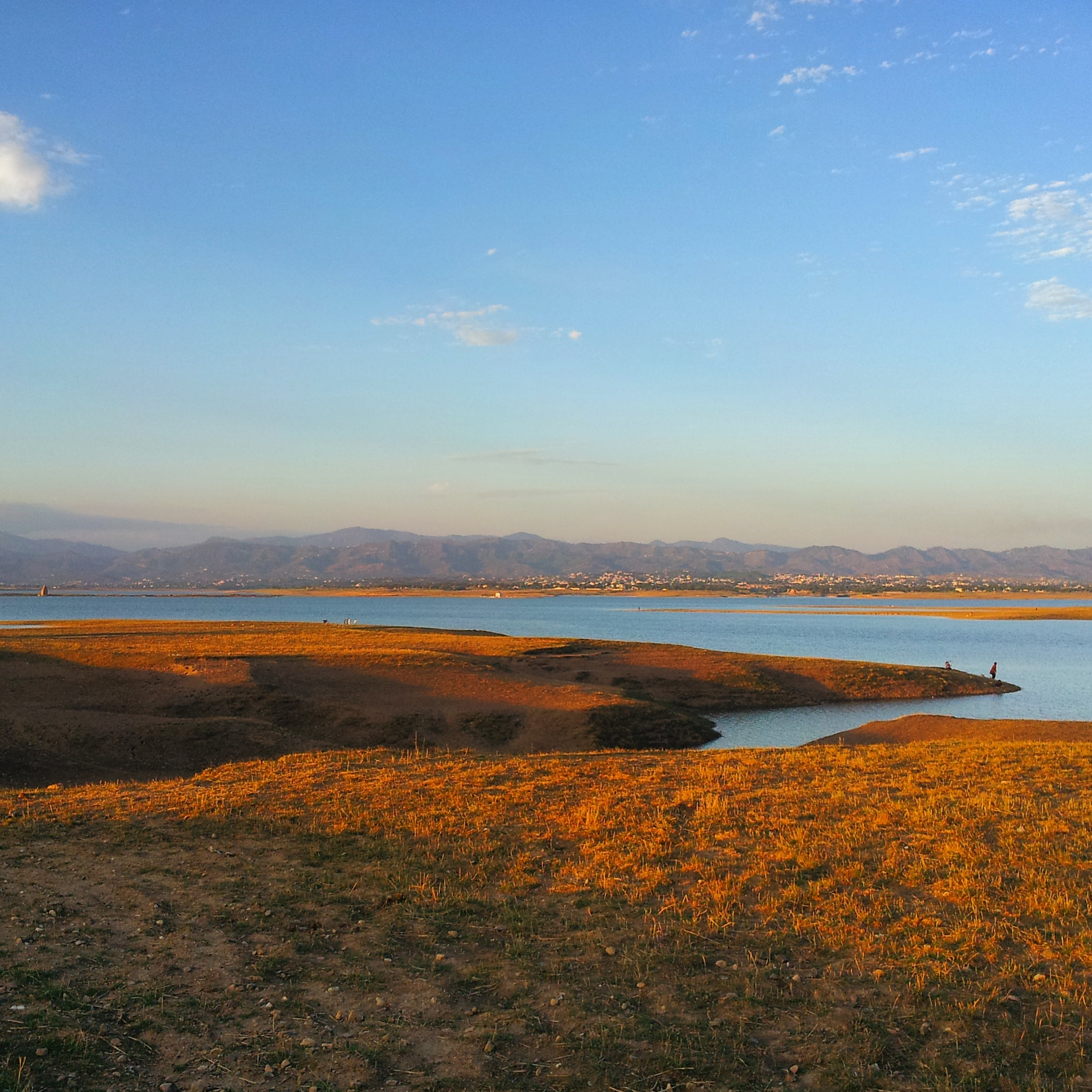 Picture taken on the Mirpur city side of Lake, near sunset.